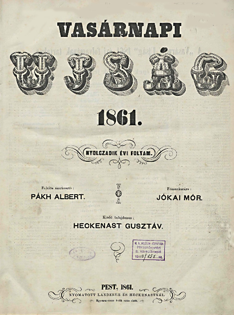 Hungarian Journal: Vasárnapi Újság 1861